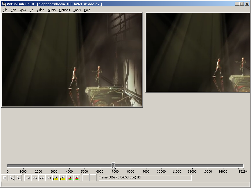 Screenshot of VirtualDub 1.9.0 under Wine showing a scene of Elephants Dream